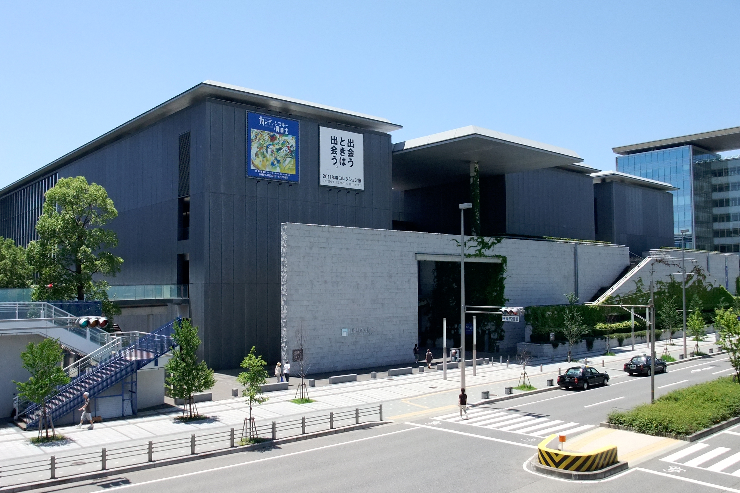 Hyogo Prefectural Museum of Art in Kobe, Hyogo prefecture, Japan